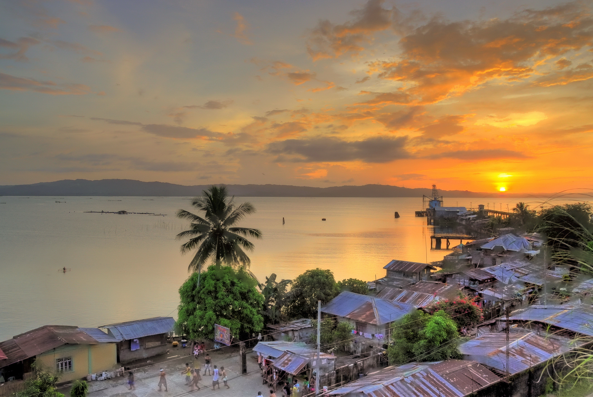 Sunset at Hondagua Sea Port, Lopez, Quezon, Philippines December 2010 (Hondagua Quezon, Philippines)